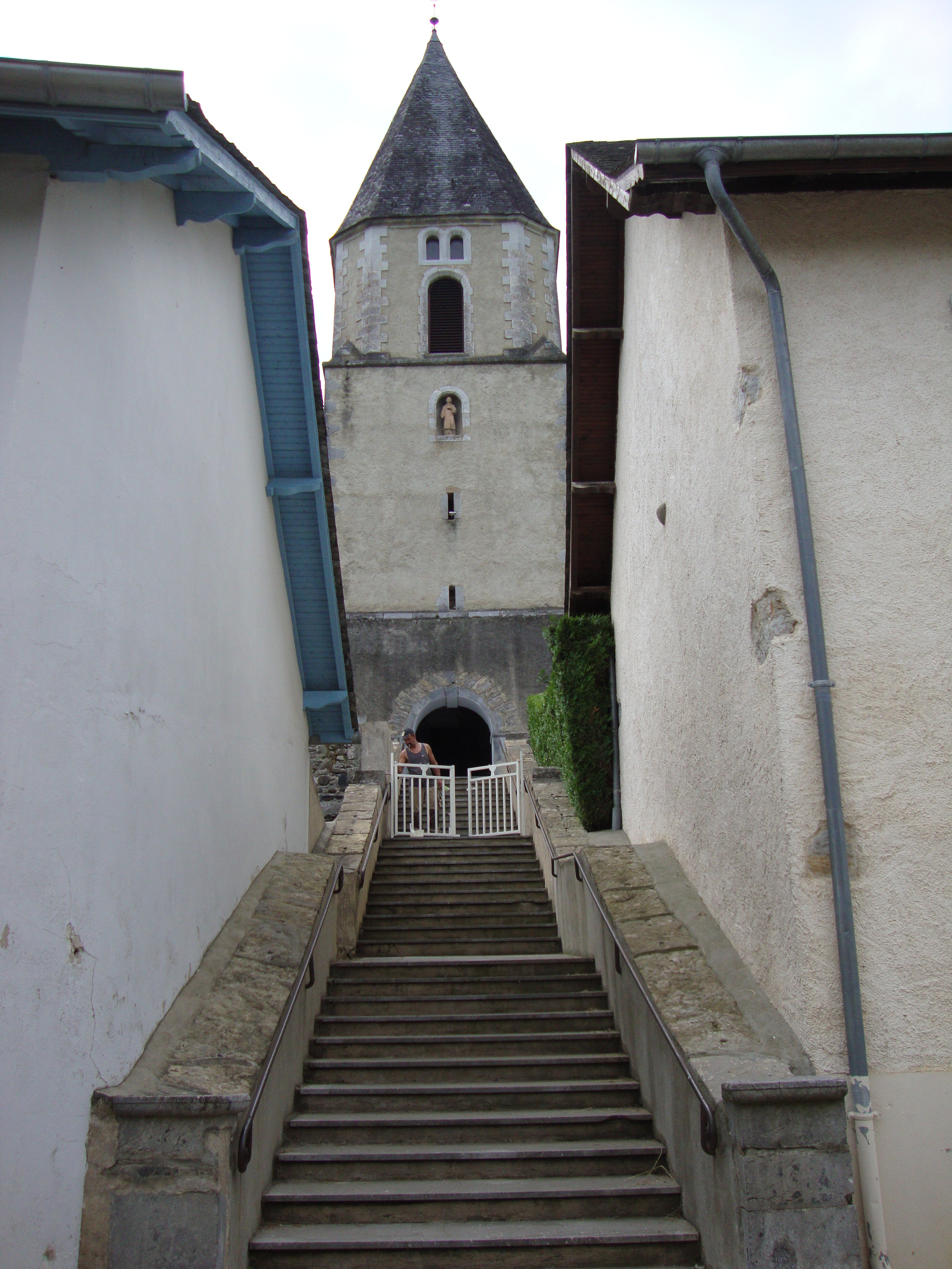 Lurbe-Saint-Christeau (Pyr-Atl, Fr) stairs and tower of the church.